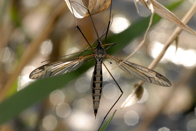 Tipula lateralis from Commanster, Belgian High Ardennes .